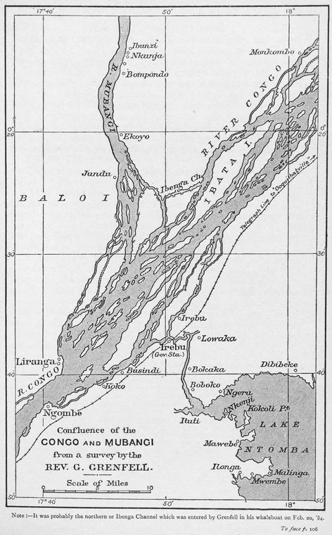 Confluence of the Congo and Mubangi from a survey by the Rev. G. Grenfell